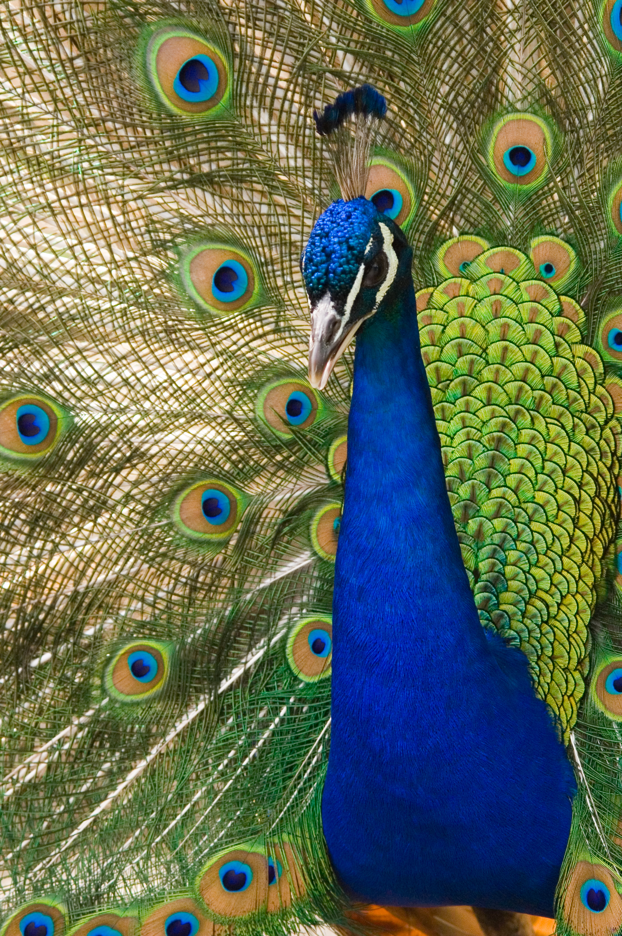 One of the peacocks that roam freely at the Oregon Zoo in Portland, Oregon.